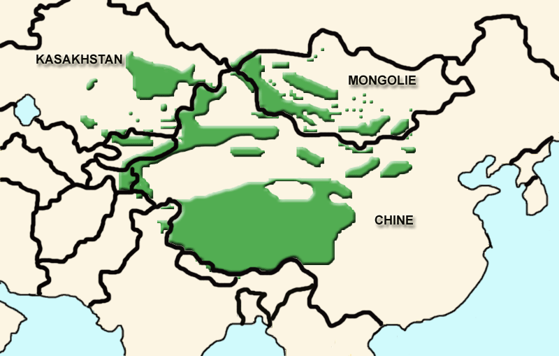 Map of Ovis ammon habitat